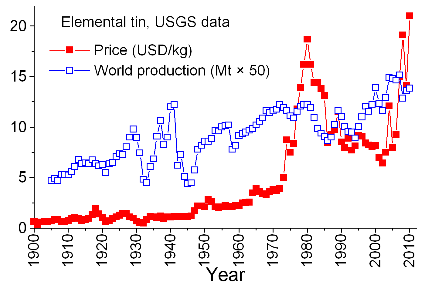 World production and US prices of tin, data from